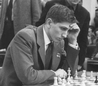 Title: GermanySchacholympiade: Tal (UdSSR) gegen Fischer United States of America United States of America Chess Olympiad: Tal (USSR) against Fischer (USA) People in the image: Fischer, Bob (Schachspieler), USA Factual corrections and alternative descriptions are encouraged separately from the original description. Additionally errors can be reported at this page to inform the Bundesarchiv. Original historic description: Germany Zentralbild/Kohls/Leske Nov. 1, 1960 XIV. Schacholympiade 1960 in Leipzig Im Ringmessehaus in Leipzig wird vom 16.10. bis 9.11.1960 die XIV. Schacholympiade ausgetragen. Am 28.10.1960 begannen die Kämpfe der Finalrunde. UBz: UdSSR - USA: .Weltmeister Tal - Internationaler Großmeister Fischer United States of America United States of America Central image / Kohls / Leske Nov. 1, 1960 w:14th Chess Olympiad, 1960 in Leipzig In the tournament in Leipzig took place between October 26(16?) and November 9, 1960. On Oct. 28, 1960 the final round began. Shown here: USSR - USA: World Champion Tal - Fischer International Grandmaster.